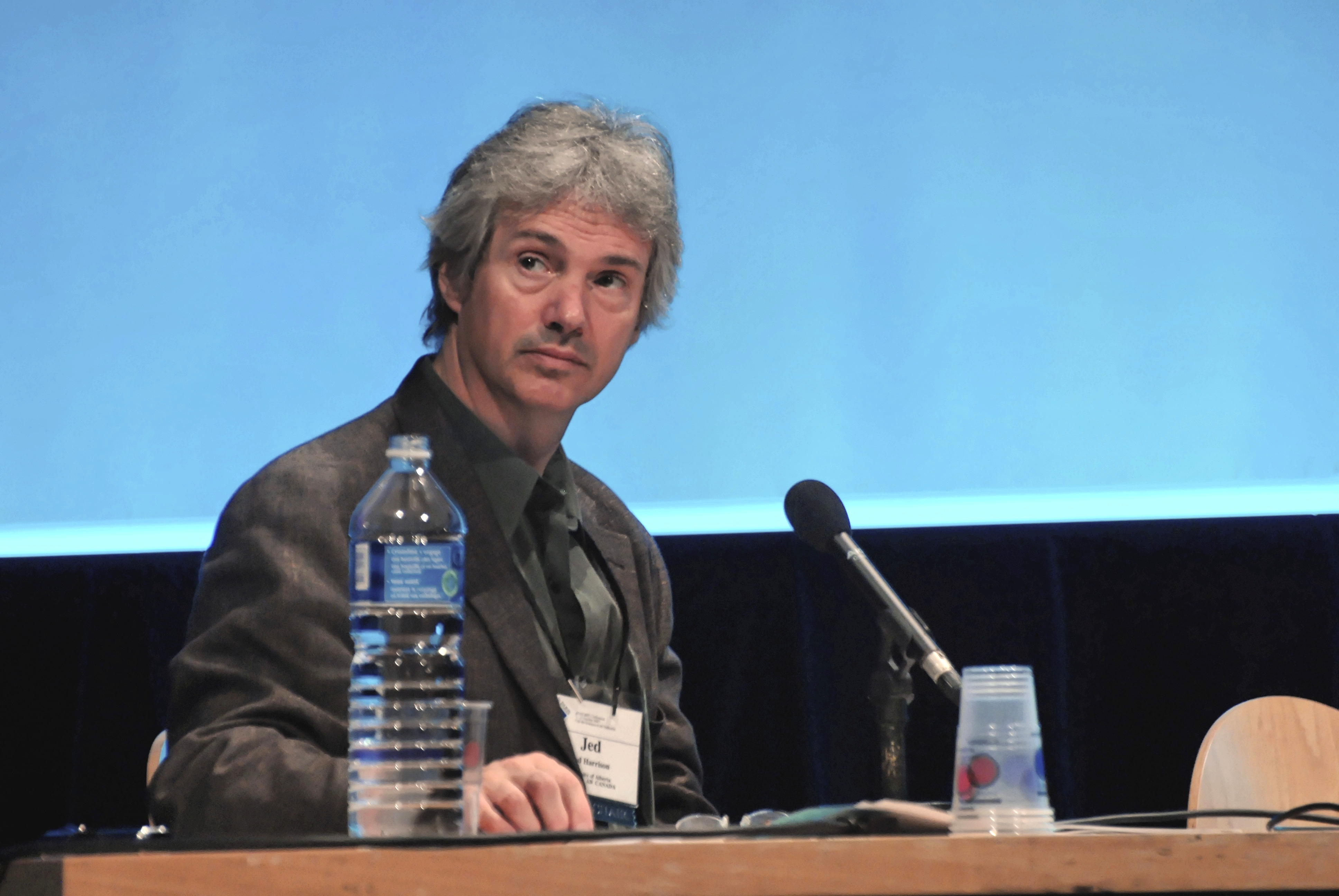 D. Jed Harrison at the 11th International Conference on Miniaturized Systems for Chemistry and Life Sciences (µTAS 2007 Conference).